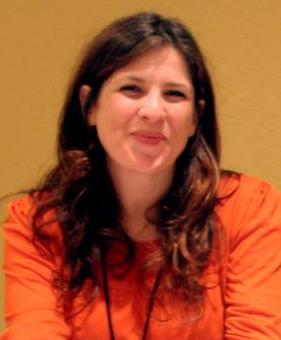 April Stewart at the Anime Supercon in 2007